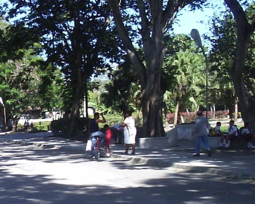 Freedom Street, the main street of the town of Cayo Mambí (seat of Frank País municipality), Cuba.